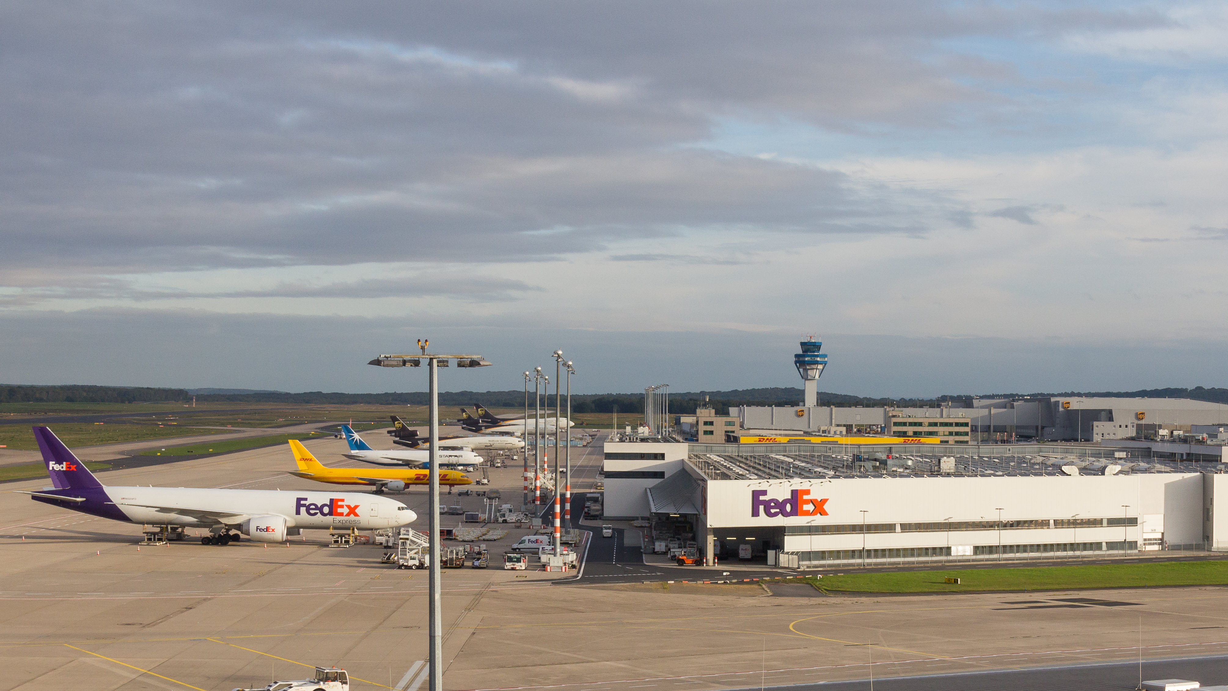 Air cargo center Cologne Bonn Airport with hubs for FedEx, DHL, Star Air, UPS